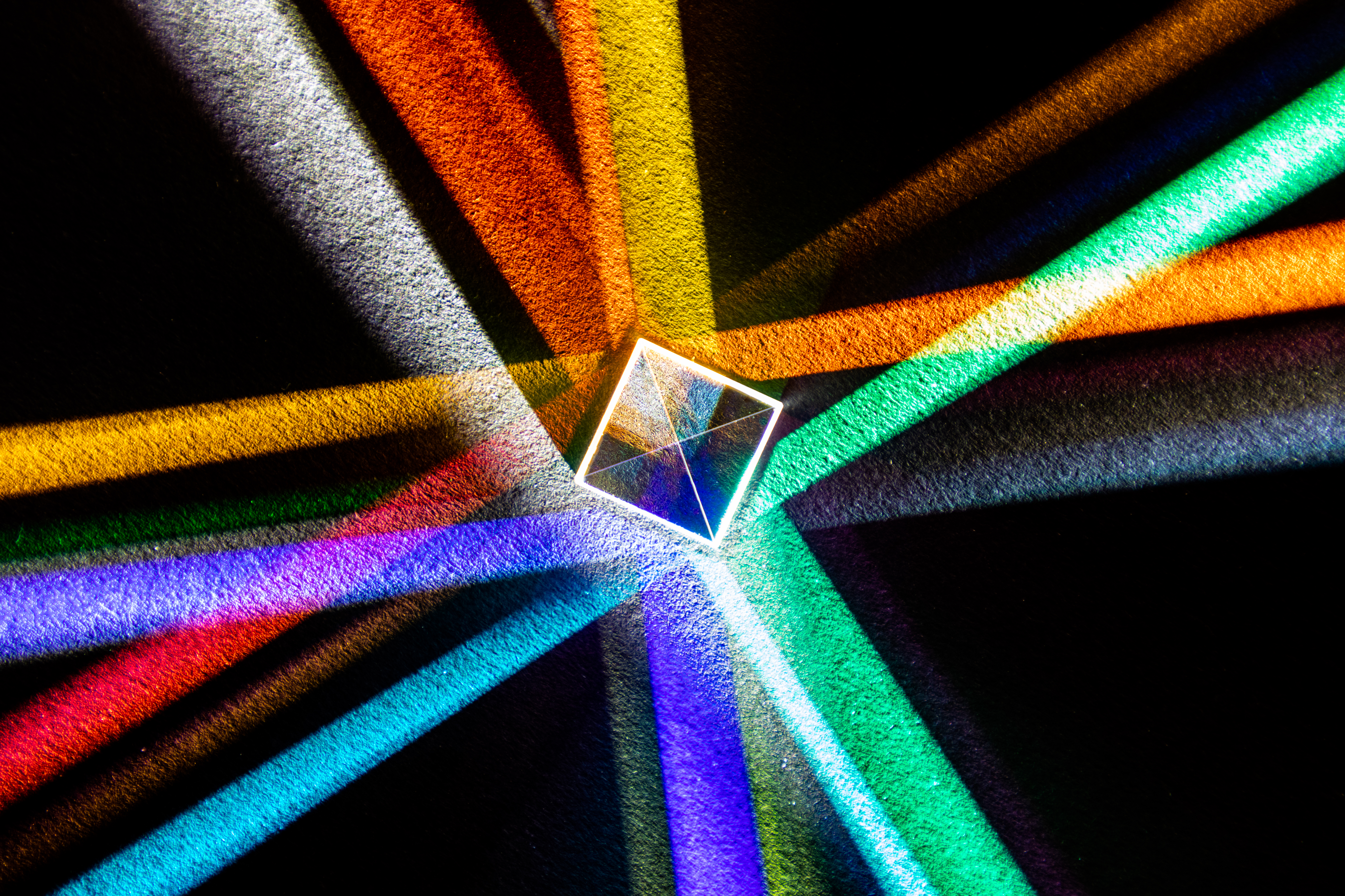 Dichroic prism with white light from bottom (right)To explain what is shown: The prism lies on a black cardboard with a rough surface to make the light visible. The light from a flashlight with white light is focused by a lens (telephoto lens) onto the prism from below (right), with a small part of the white light passing the prism.